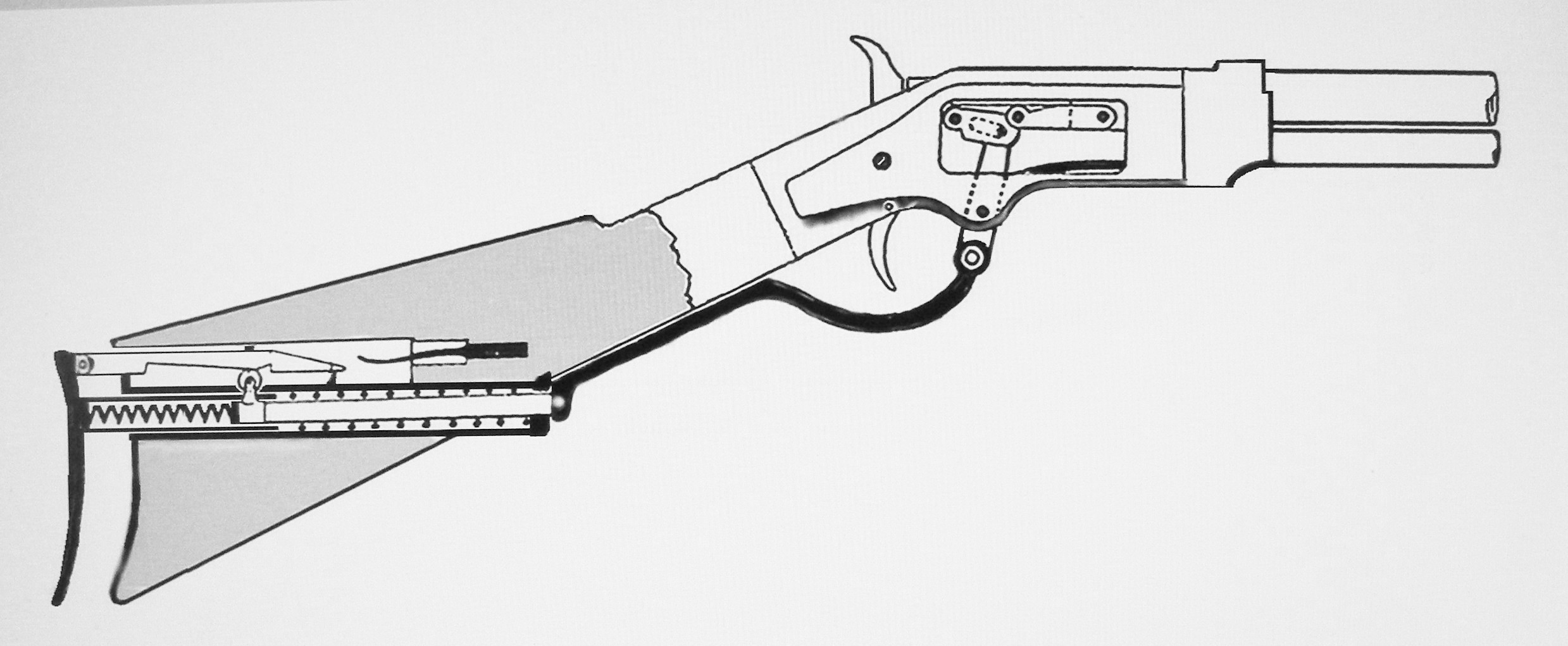 Winchester Maxim Auto